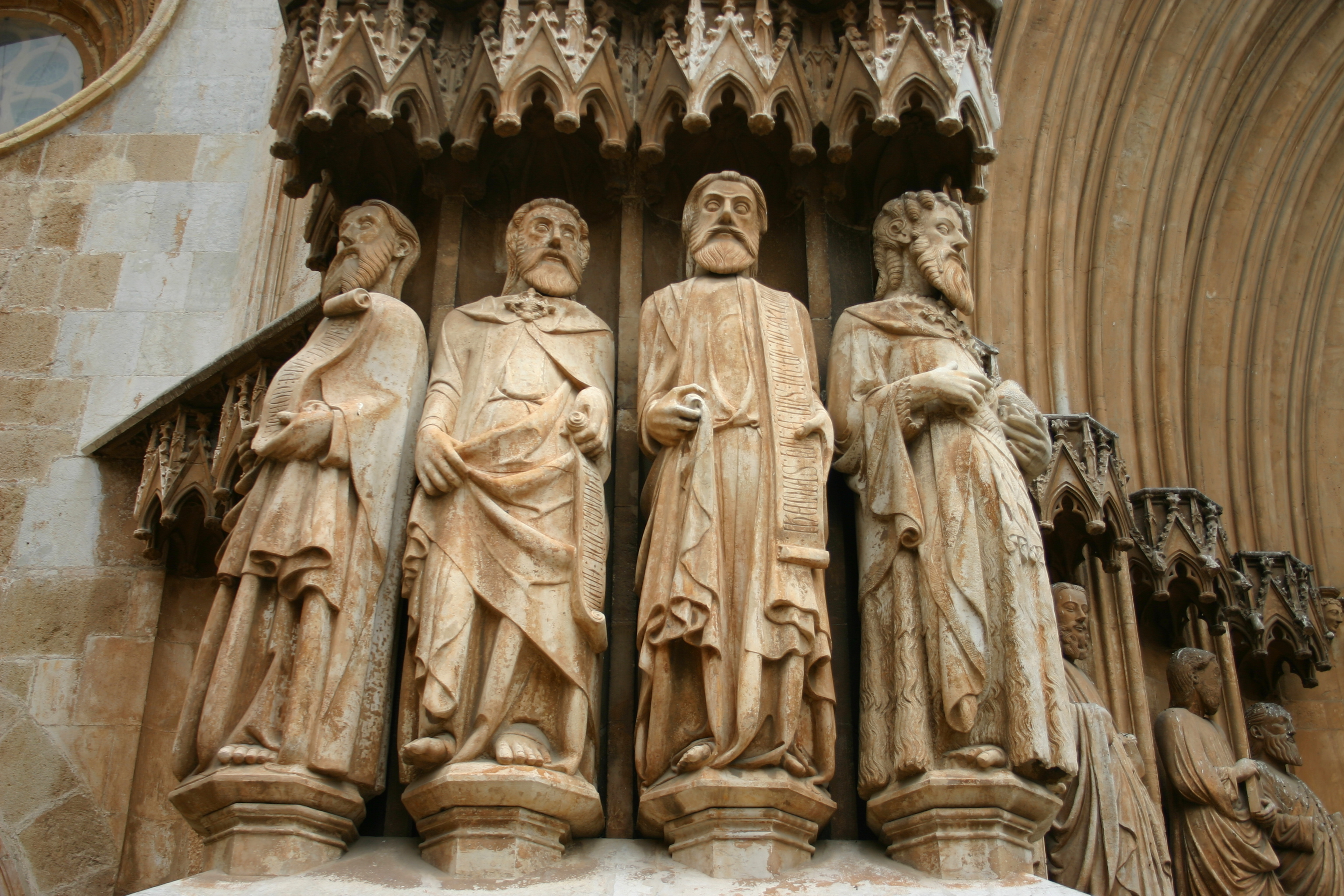 Cathedral of Tarragona, Catalonia (Spain).